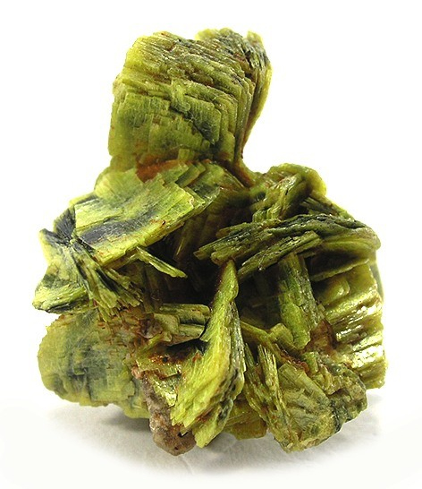 Autunite Locality: Daybreak Mine (Dahl lease), Mount Kit Carson, Spokane County, Washington, USA (Locality at ) Very elegant thumbnail of this classic material, probably from the 1950s or 60s! 2.3 x 2 x 1.2 cm